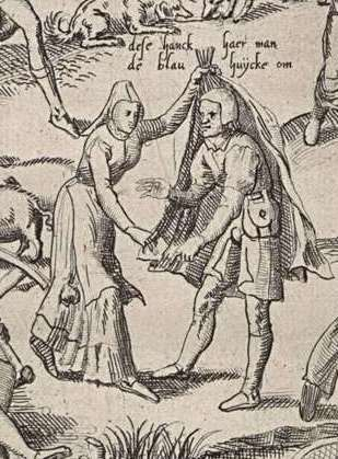 The Blue Cloak, 43 proverbs in visual demonstrations, most prominently a woman who puts her cloak over her husband, a way of saying she is deceiving him (pulling the wool over his eyes). Published around the time of Pieter Brueghel's Netherlandish Proverbs painting.